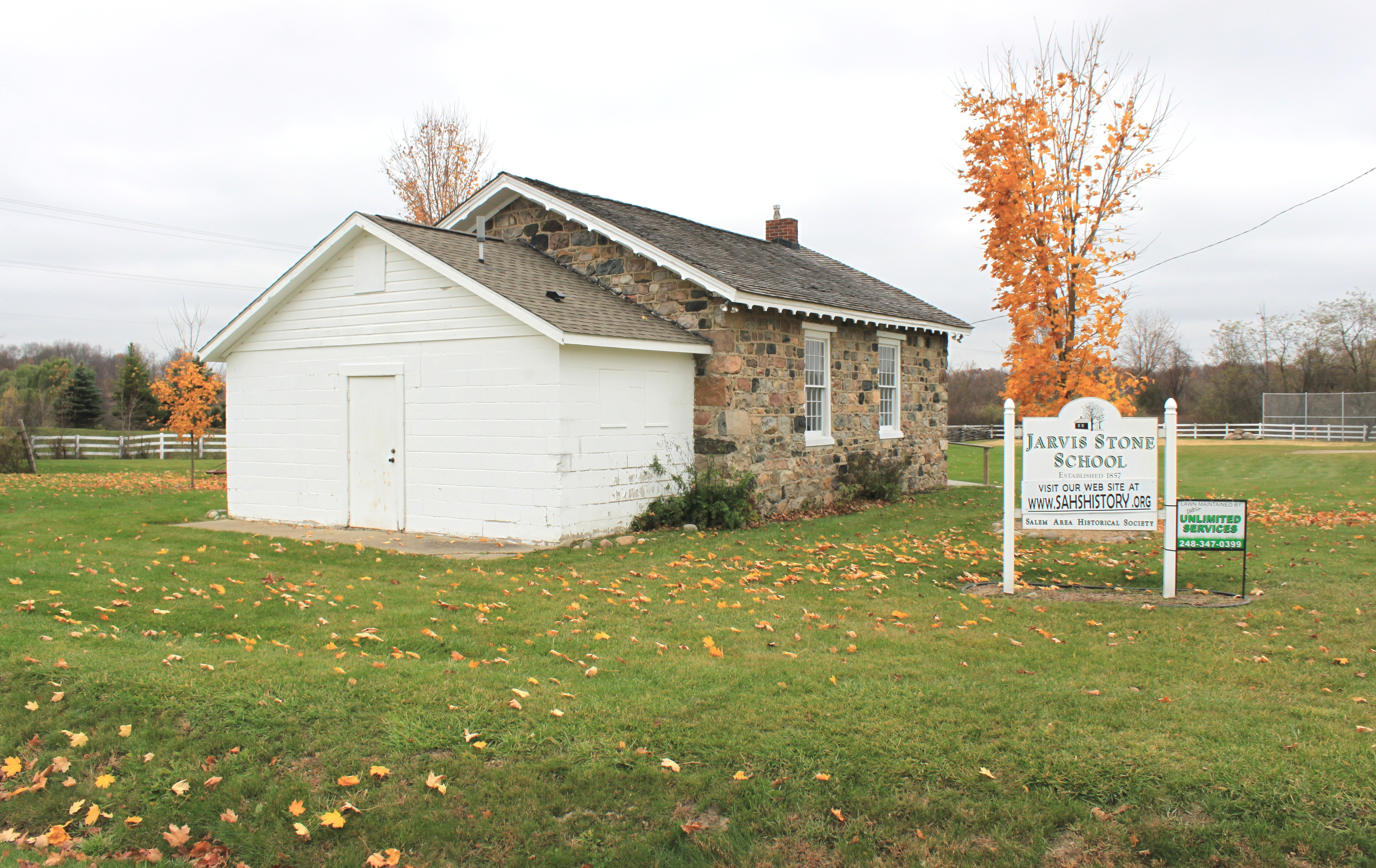 Jarvis Stone School, northwest corner of Curtis Road and North Territorial Road, Salem Township, Michigan.